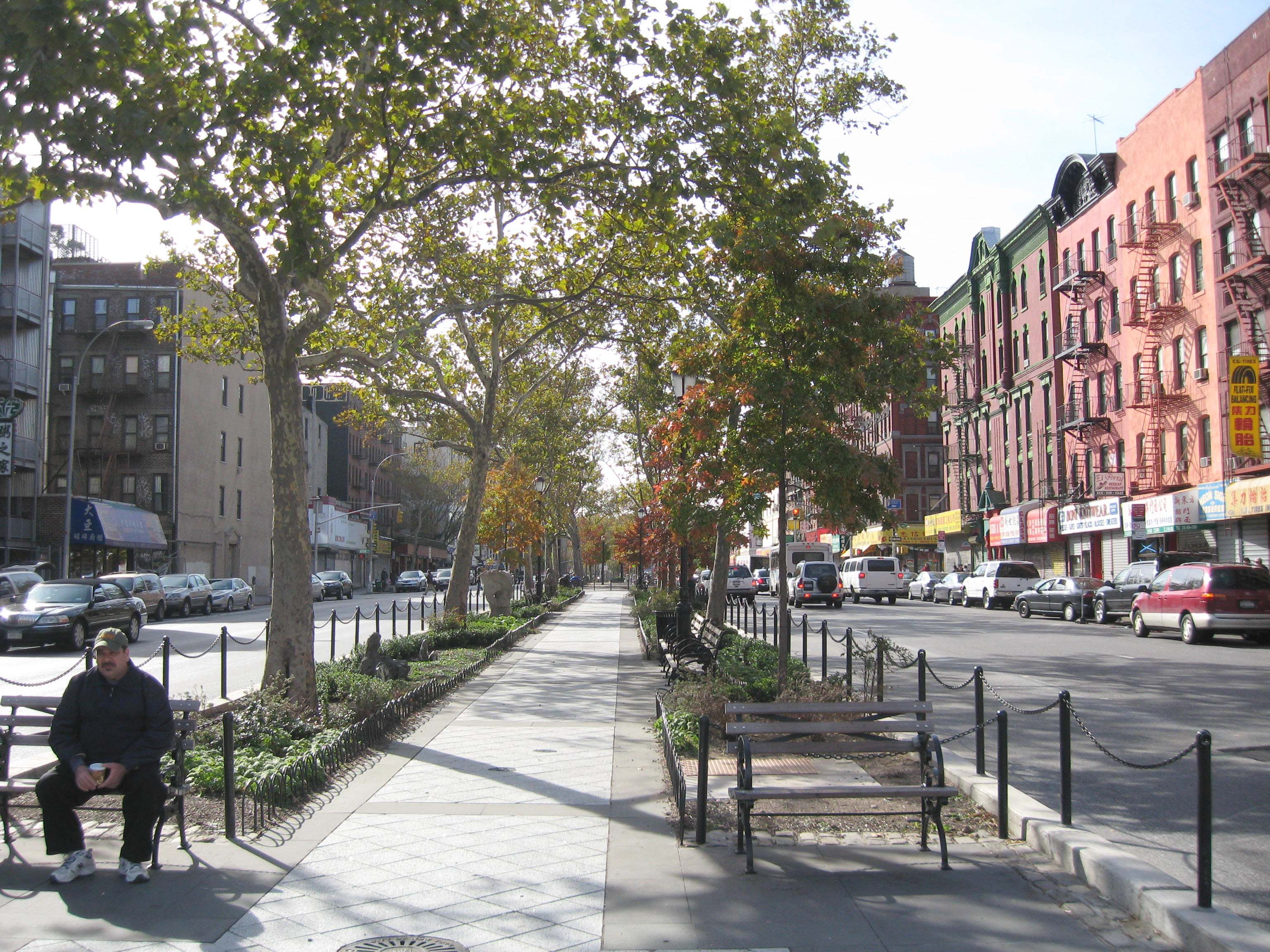 Looking south from Delancey Street, at central mall that divides Allen Street (Manhattan) on a sunny late morning. ZIP 10002.